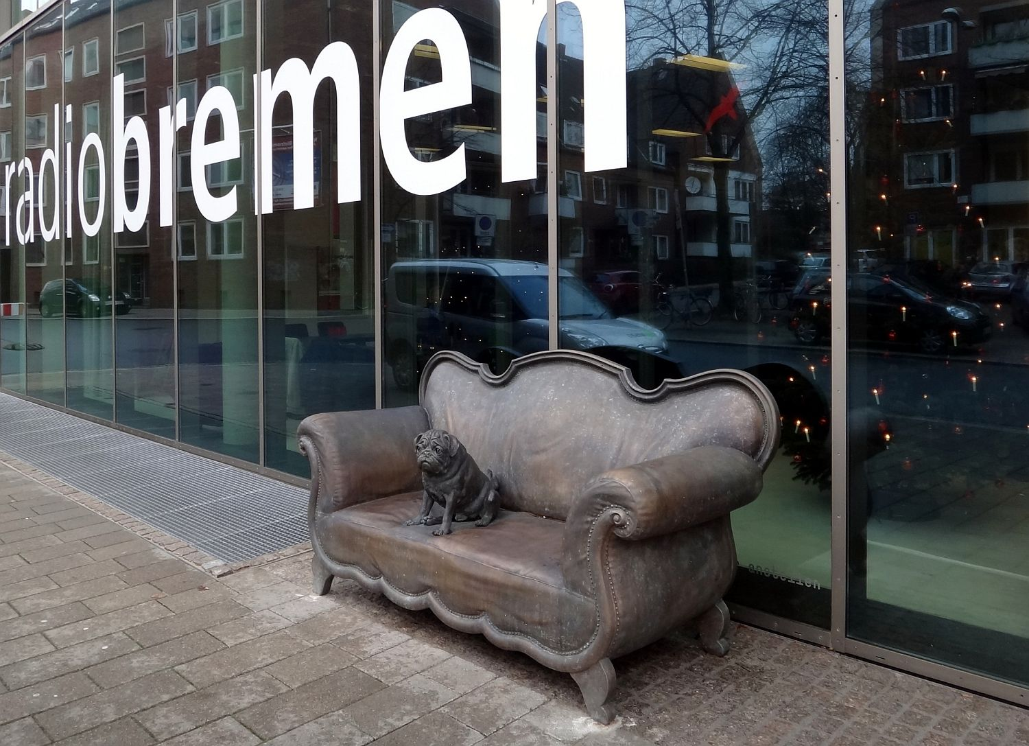 A bronze replica of the green sofa from the German TV series Loriot infront of the broadcasting studios of Radio Bremen, which was unveiled on November 10, 2013. On it a sitting pug dog of bronze. The sculpture was designed by artist Herbert Rauer from Osnabrück; it was cast in Bremen-Findorff.